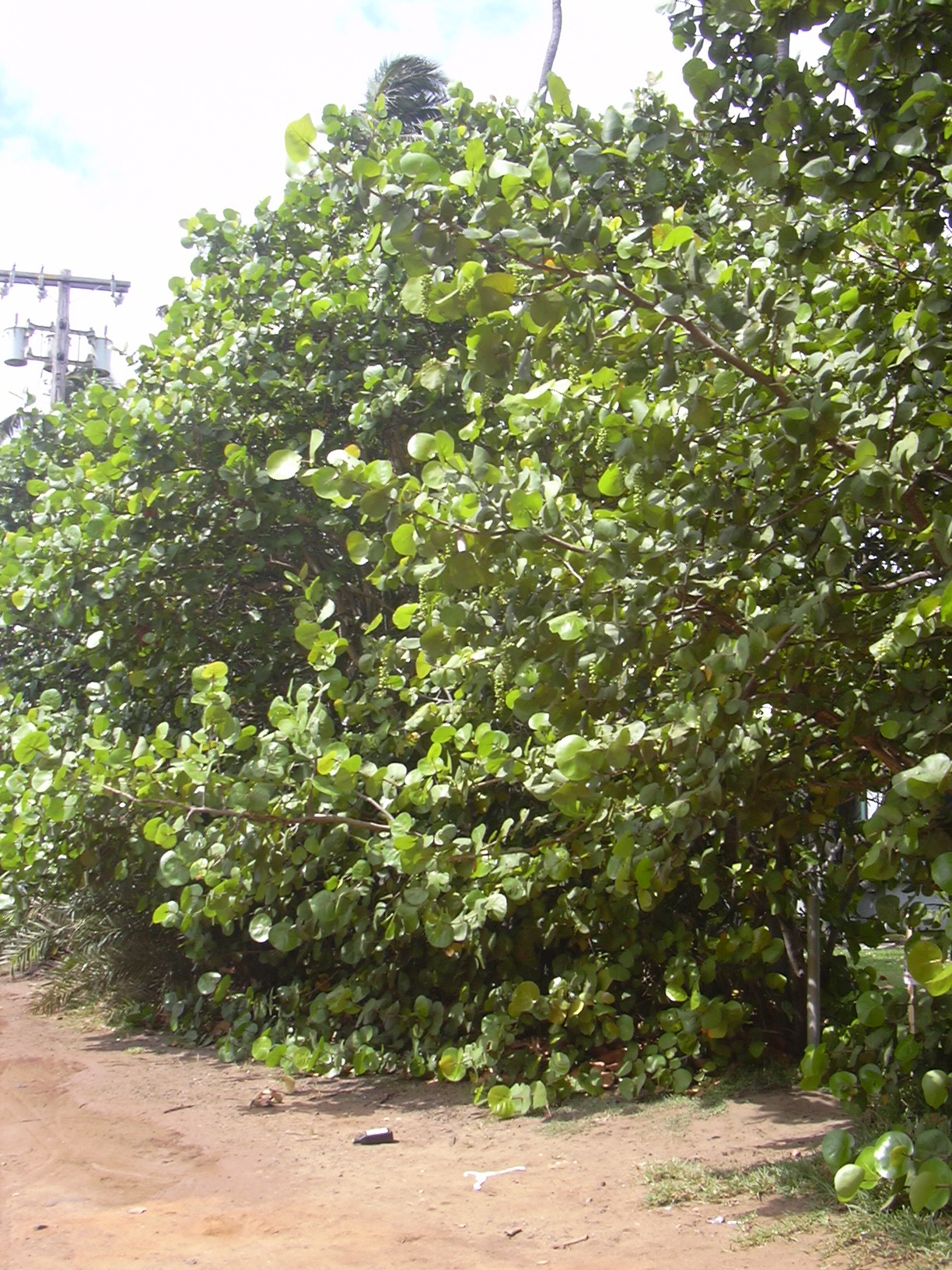 Coccoloba uvifera (habit). Location: Maui, Kahului